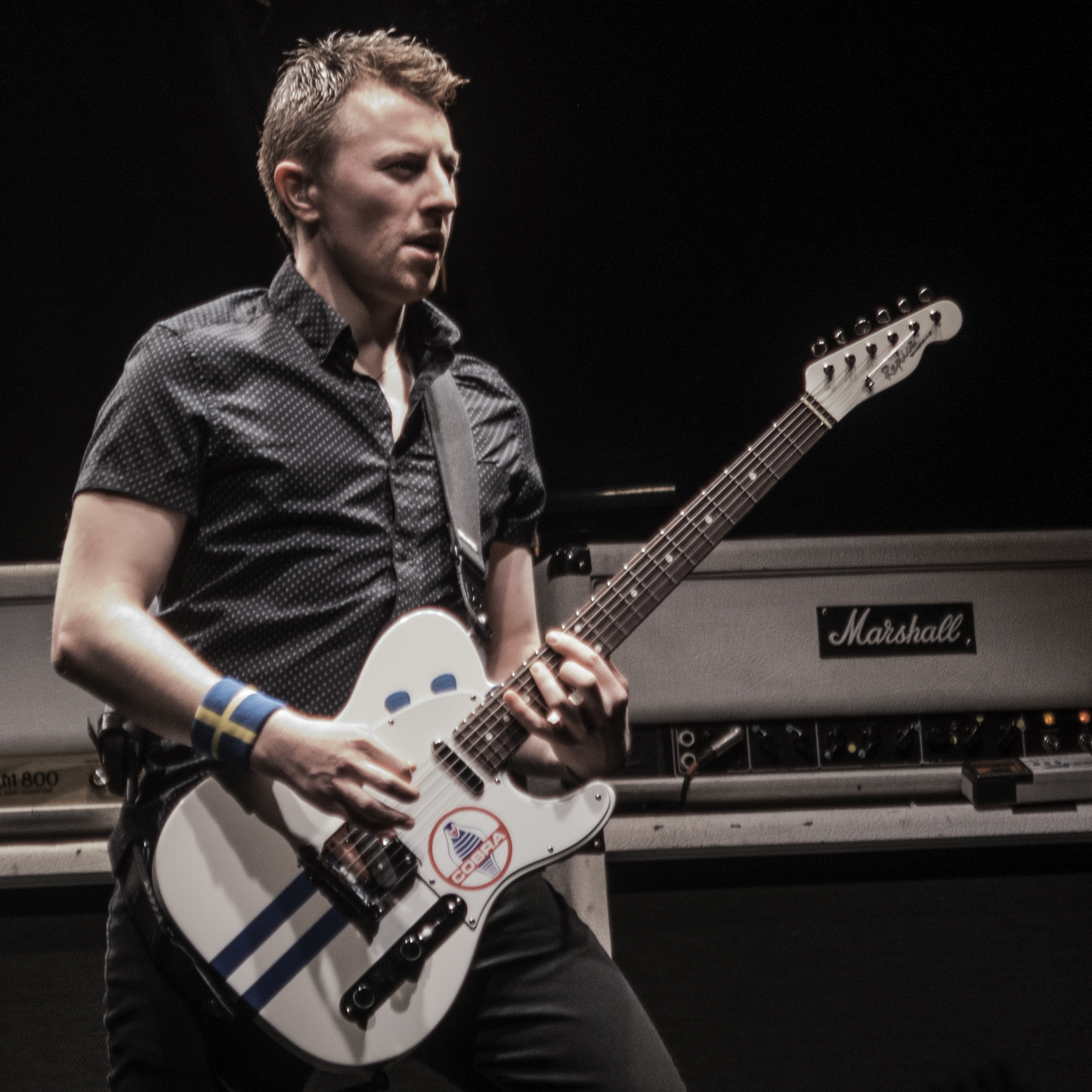 Richie Malone, live with Status Quo at Partille Arena, 2017-04-22